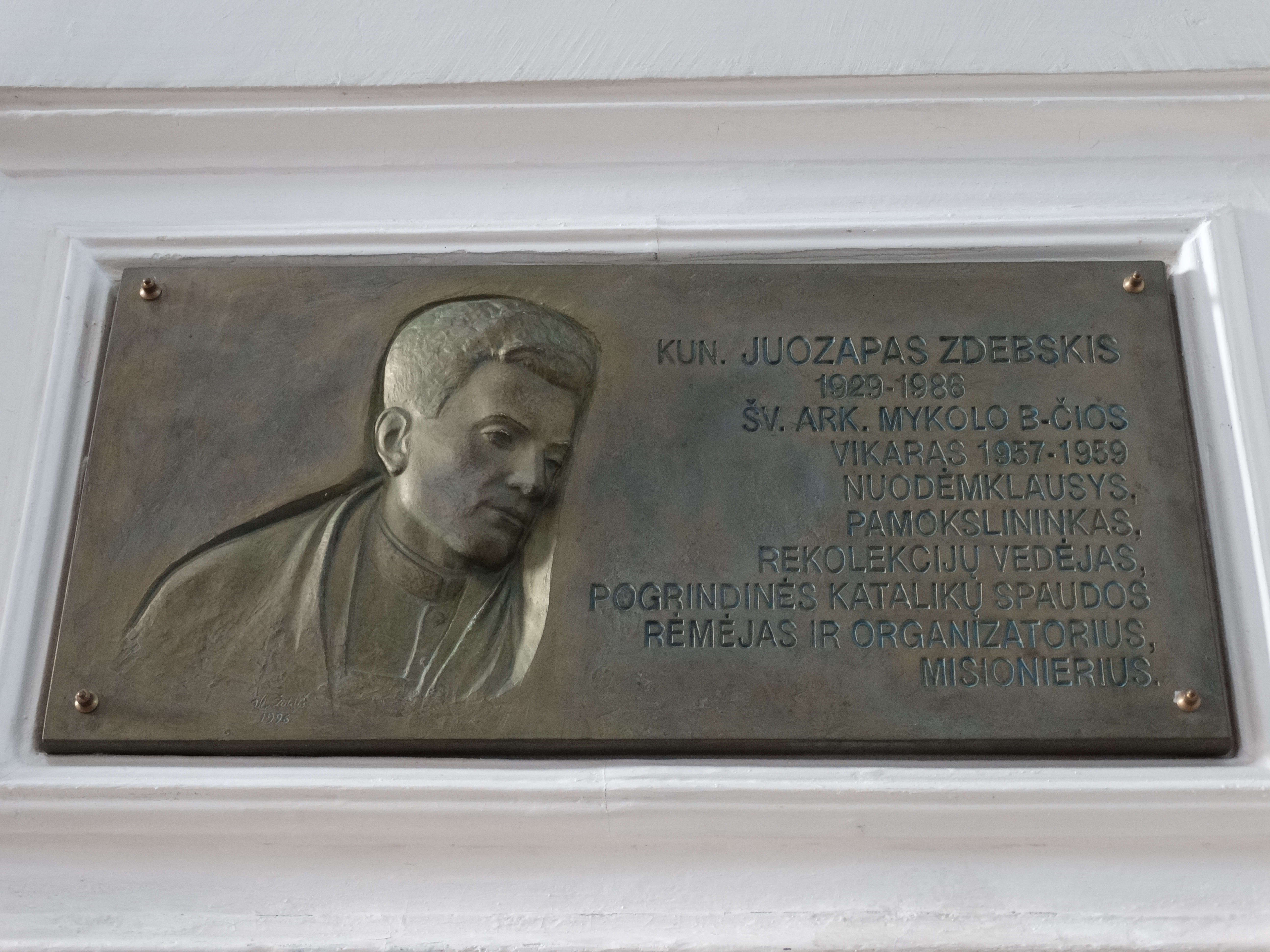 Memorial plaque to Juozapas Zdebskis, St. Michael the Archangel Church, Kaunas, Lithuania